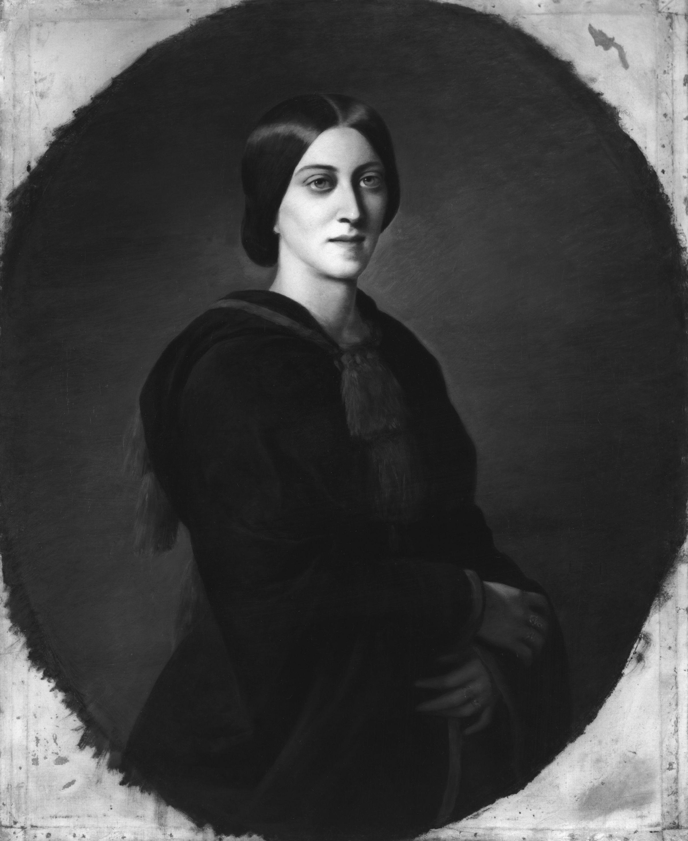 Adelaide Anne Procter (30 October 1825 – 2 February 1864) was an English poet and philanthropist. She worked on behalf of a number of causes, most prominently on behalf of unemployed women and the homeless, and was actively involved with feminist groups and journals.